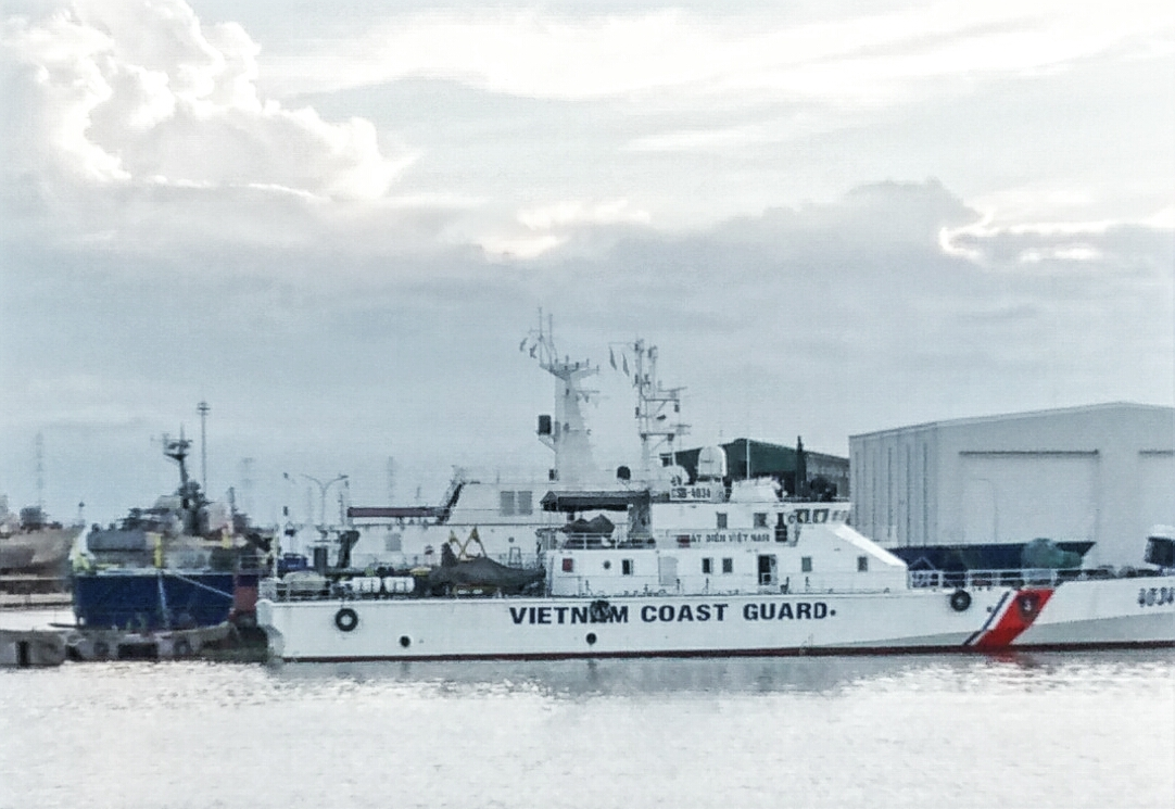 A vessel of Vietnam Coast GuardTiếng Việt: Một chiếc tàu của Cảnh sát biển Việt Nam